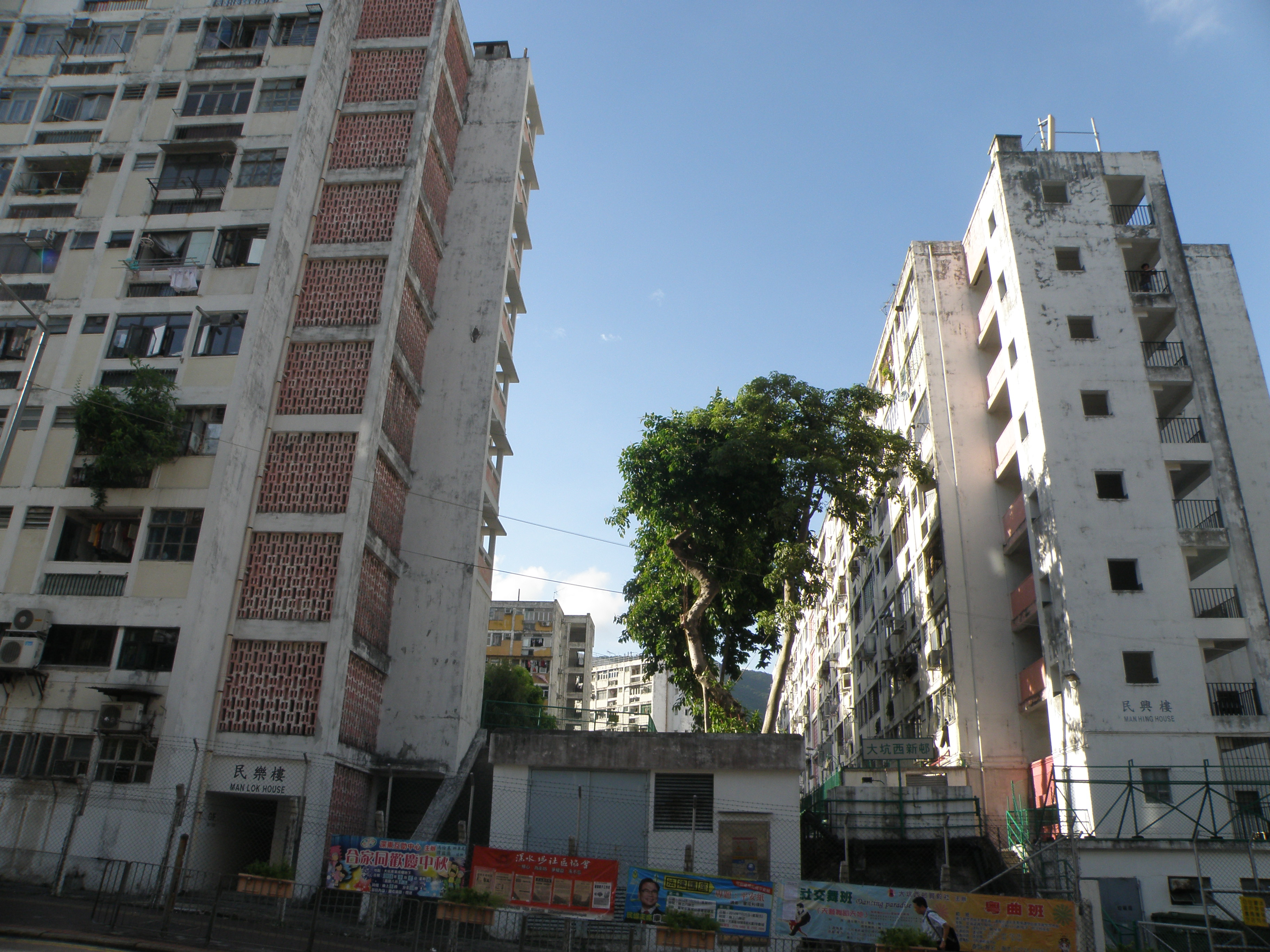 Tai Hang Sai Estate in Shek Kip Mei, Hong Kong.